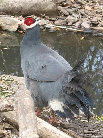 Description: Blue Eared-pheasant - Source: own work - Location: Central Park Zoo, New York - Author: self, User:Stavenn